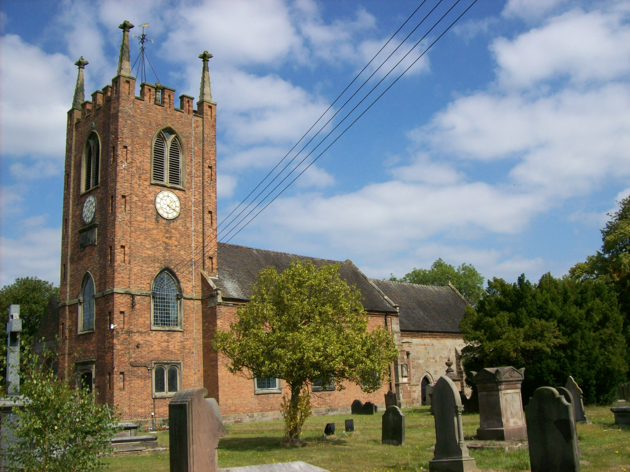 Church of England parish church of St Chad, Seighford, Staffordshire, seen from the southwest